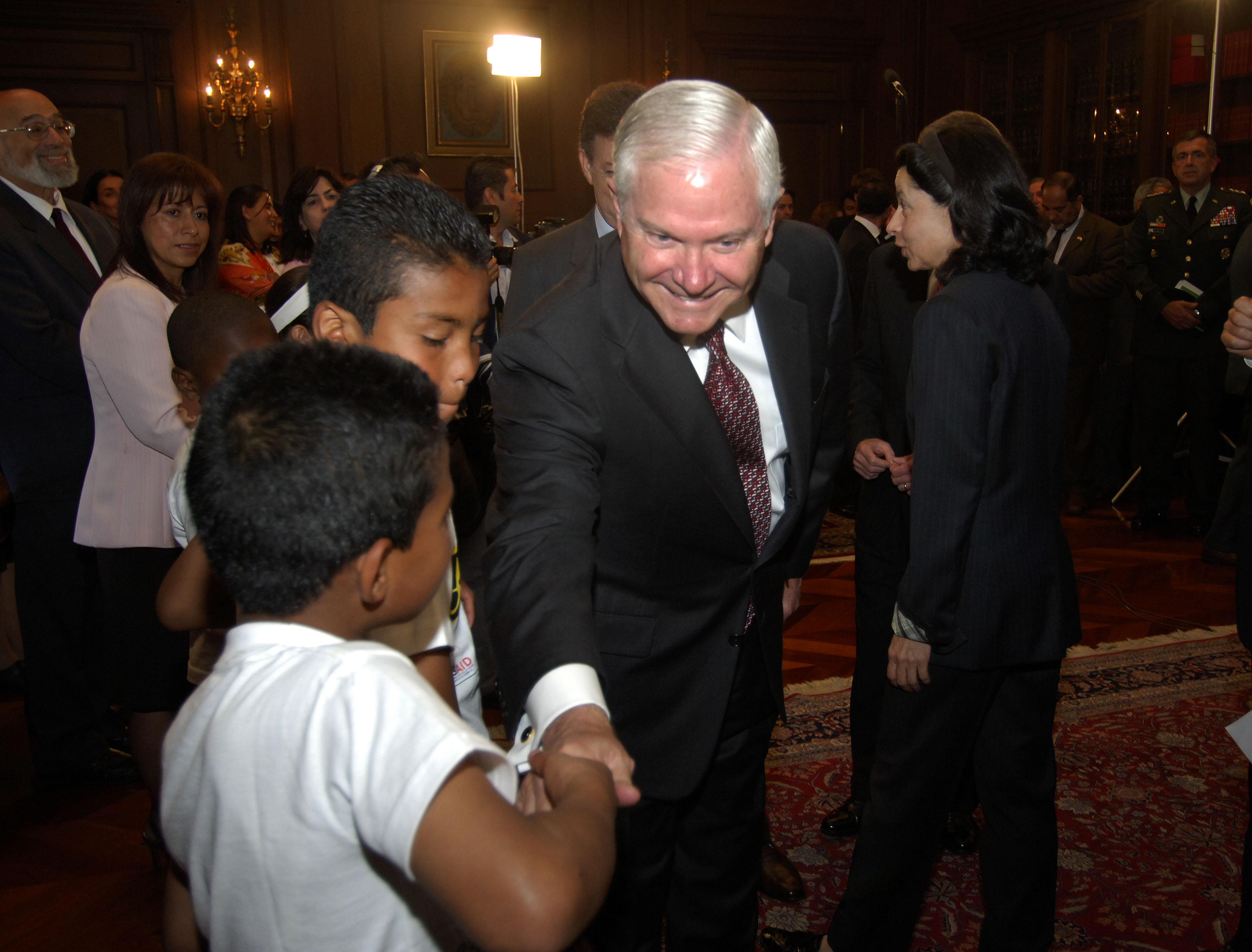 Defense Secretary Robert M. Gates talks with children and members of of the Batuta Foundation and Colombia's Presidential Agency for Social Action and International Cooperation during a trip to Bogota, Oct. 3, 2007. Defense Dept. photo by U.S. Air Force Tech. Sgt. Jerry Morrison